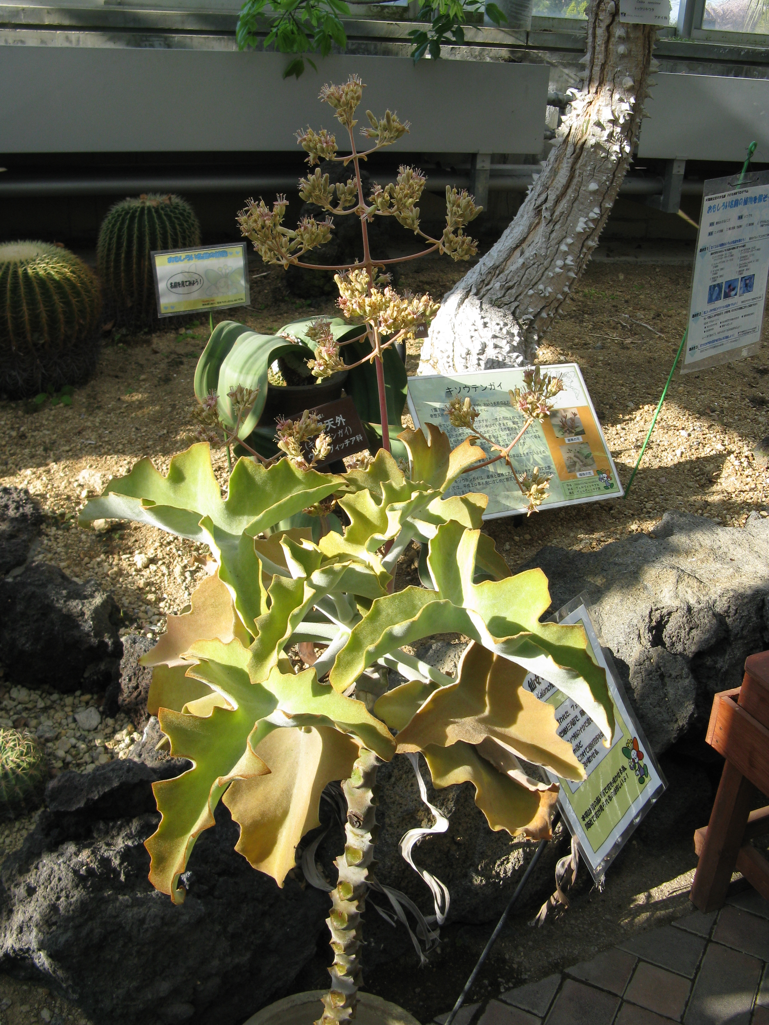 Scientific name Kalanchoe beharensis Place:Osaka Prefectural Flower Garden,Osaka,Japan